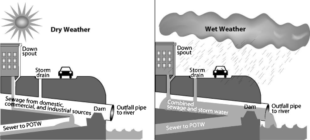 Illustration of a combined sewer system.